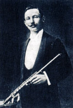 The flutist Leonardo De Lorenzo